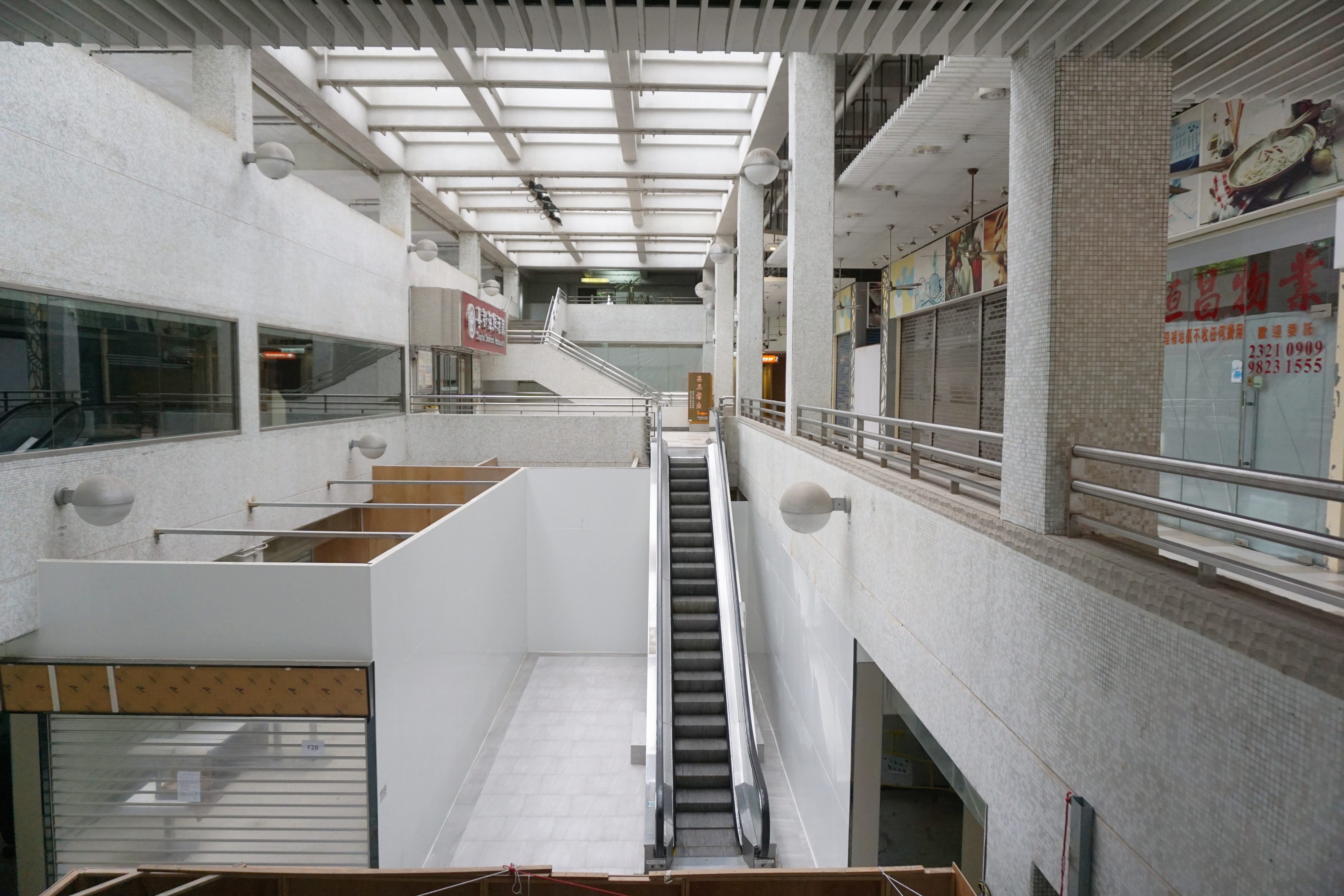 Tin Ma Court Commercial Centre in Chuk Yuen, Hong Kong.